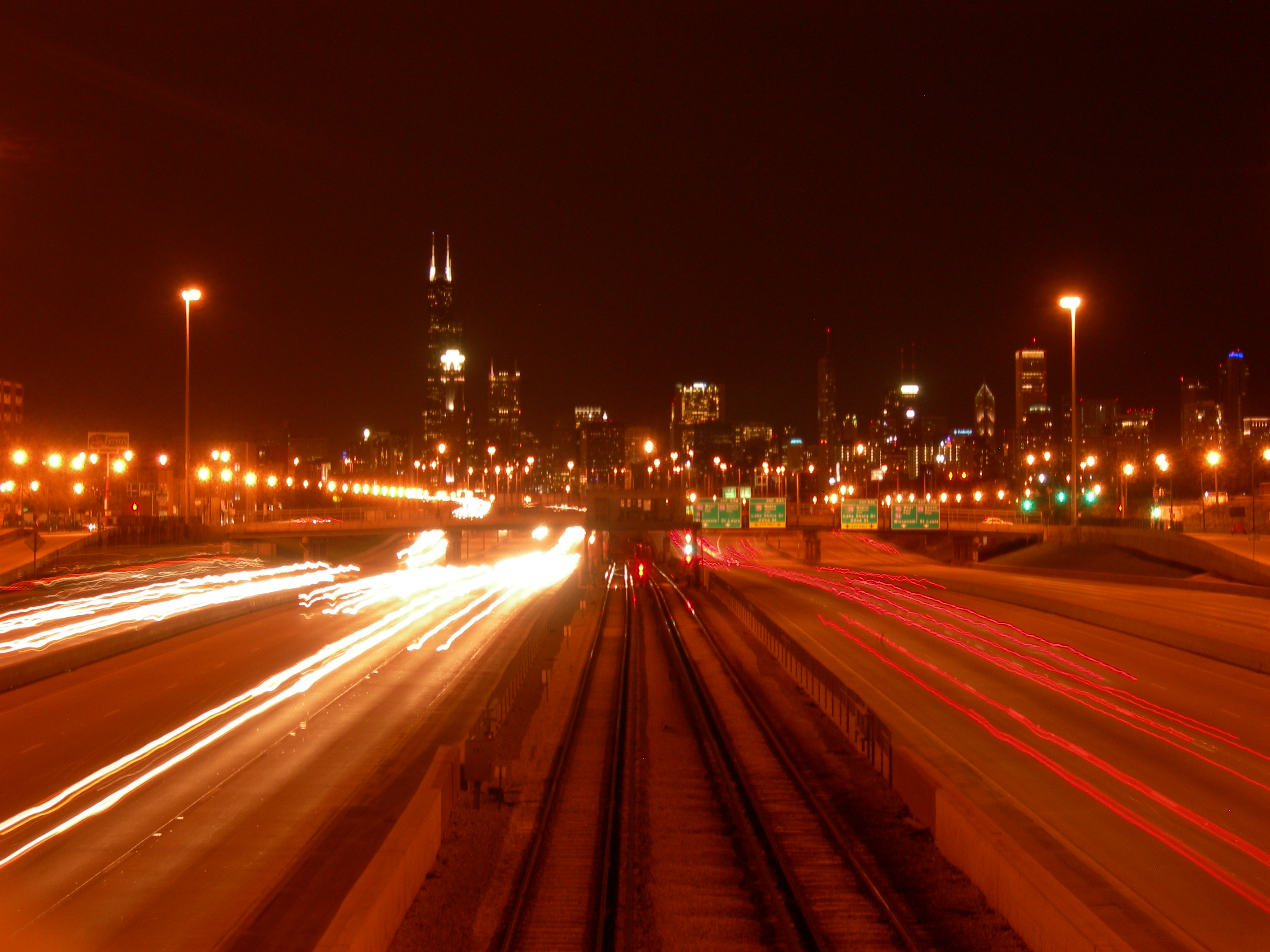 Dan Ryan Expressway at 33rd Street looking north